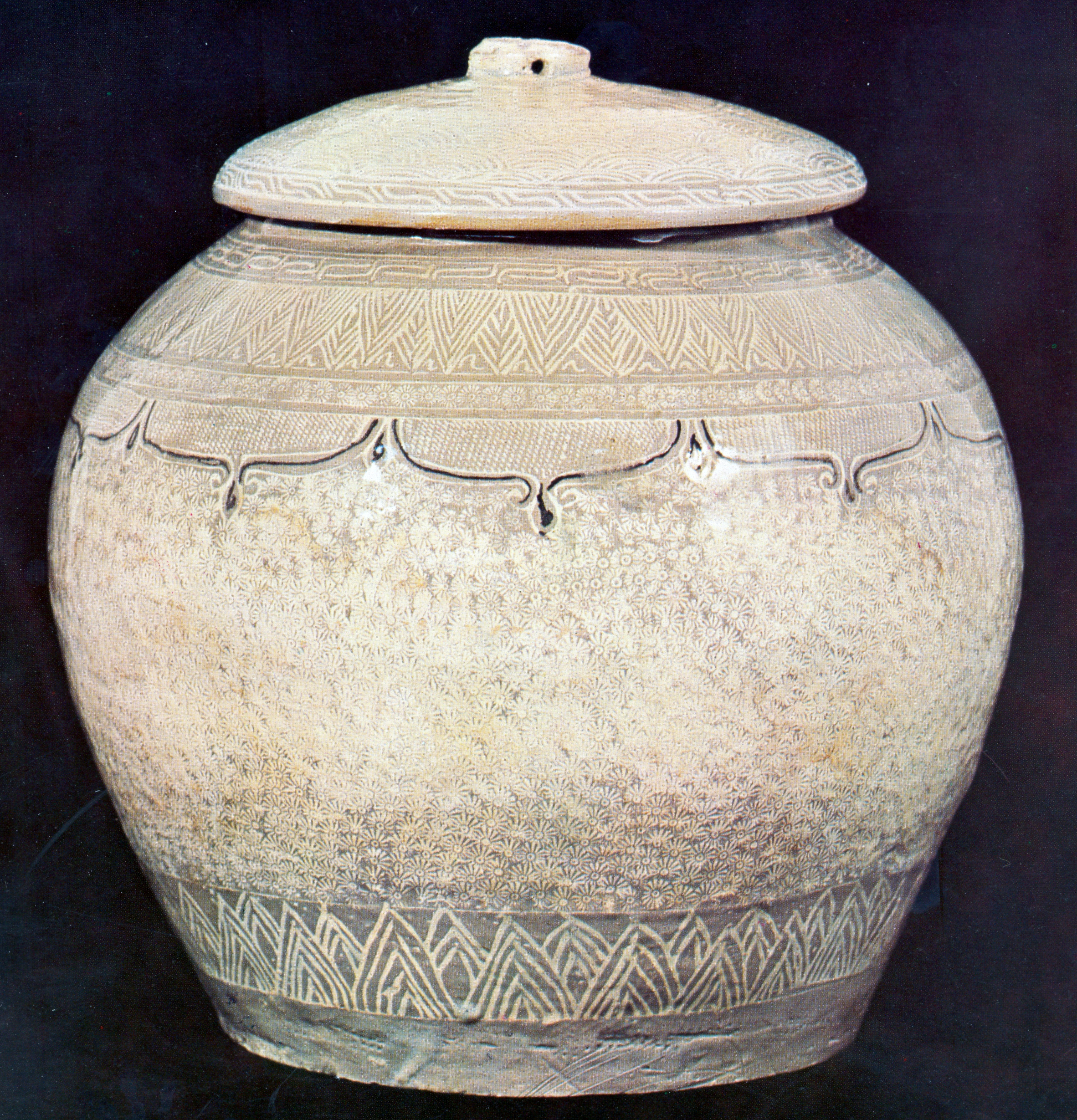 Buncheong Placenta Jar Stamped Chrysanthemum Designs